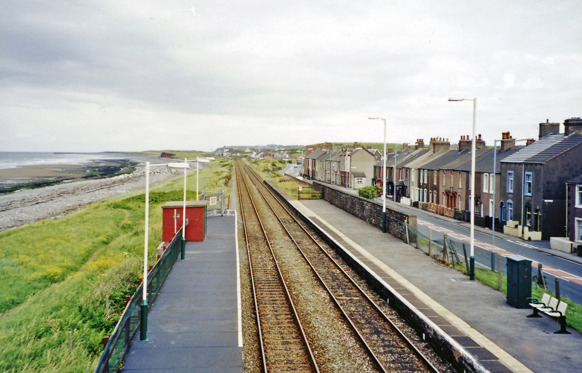 Flimby Station, View NE, towards Maryport and Carlisle; ex-LNWR (Whitehaven) - Workington - Maryport - (Carlisle) seconadry main line. (A lesser-known seaside resort?)